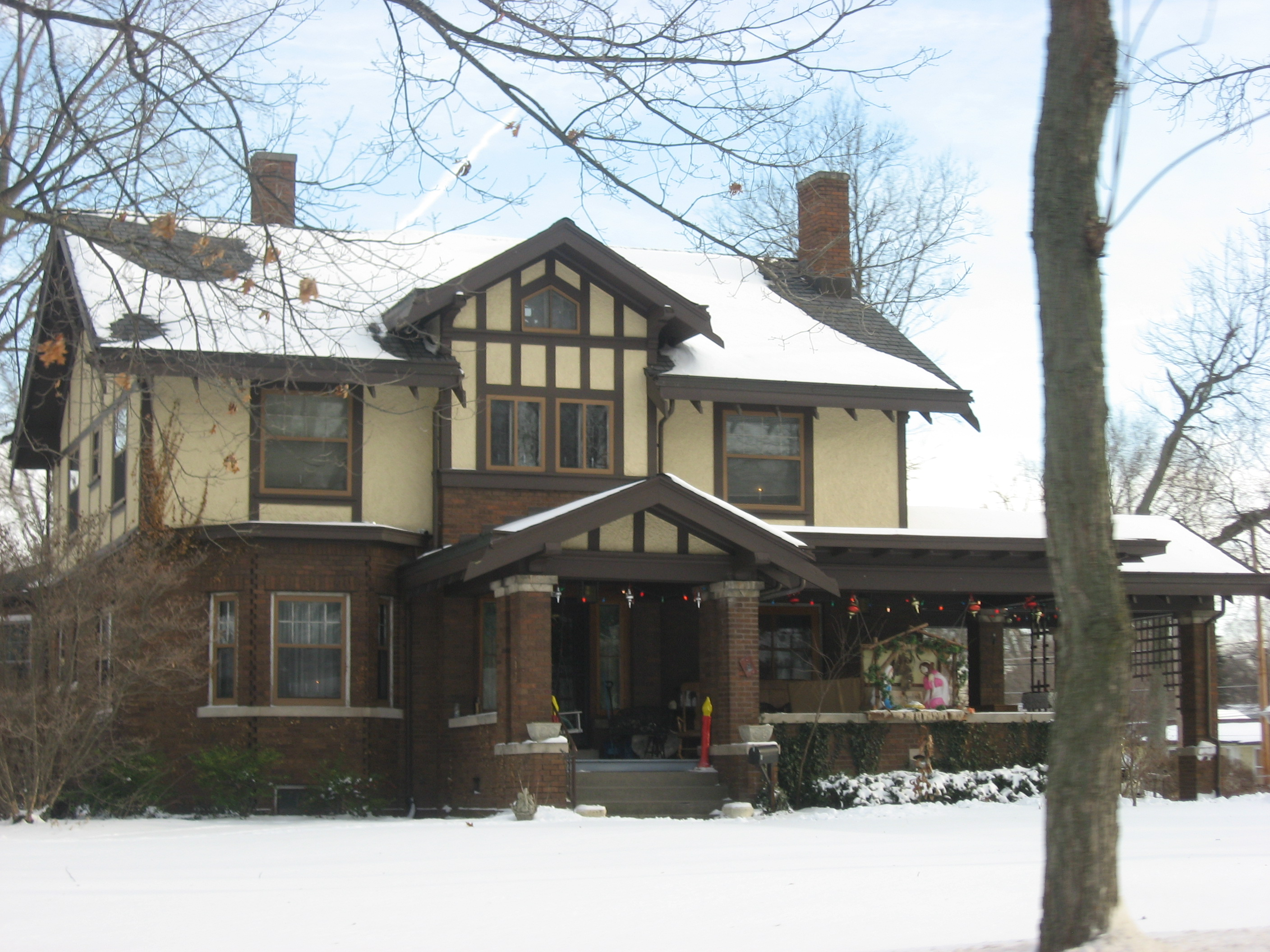 Front of the John H. and Mary Abercrombie House, located at 3130 Parnell Avenue in Fort Wayne, Indiana, United States. Built in 1914, it is listed on the National Register of Historic Places.